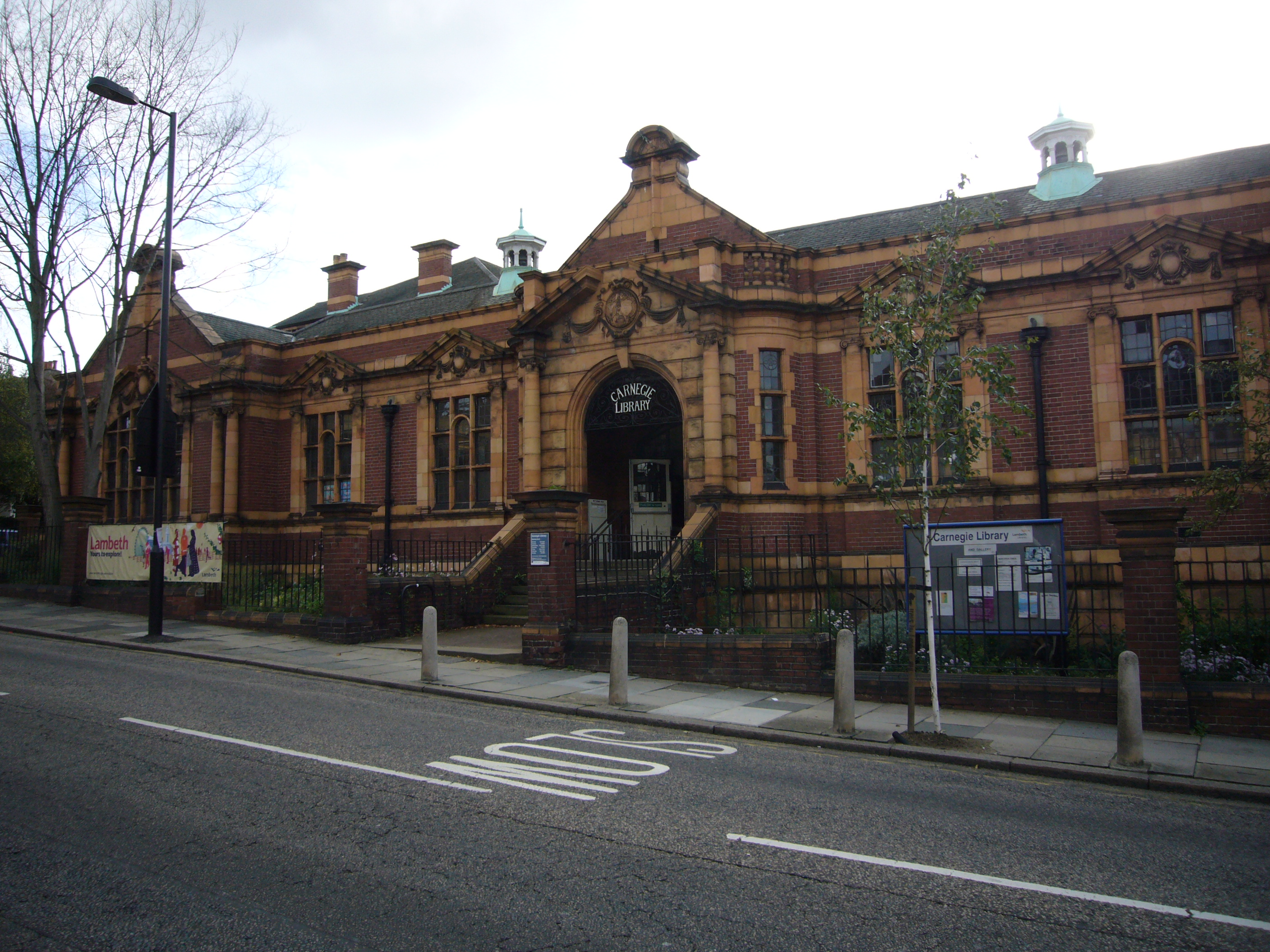 The Carnegie Library in Herne Hill, London